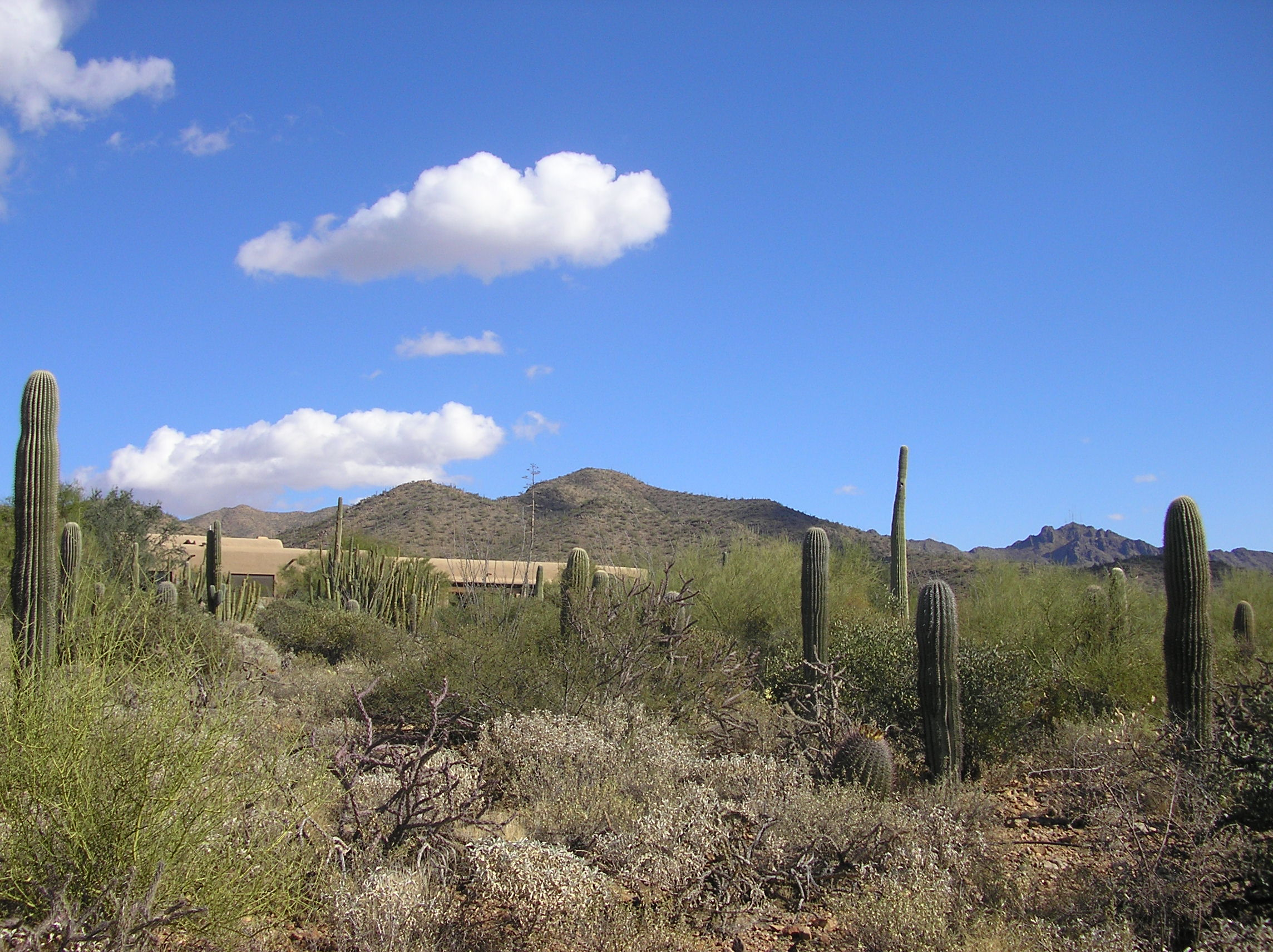 taken at the Arizona-Sonora Desert Museum looking back towards the entrance